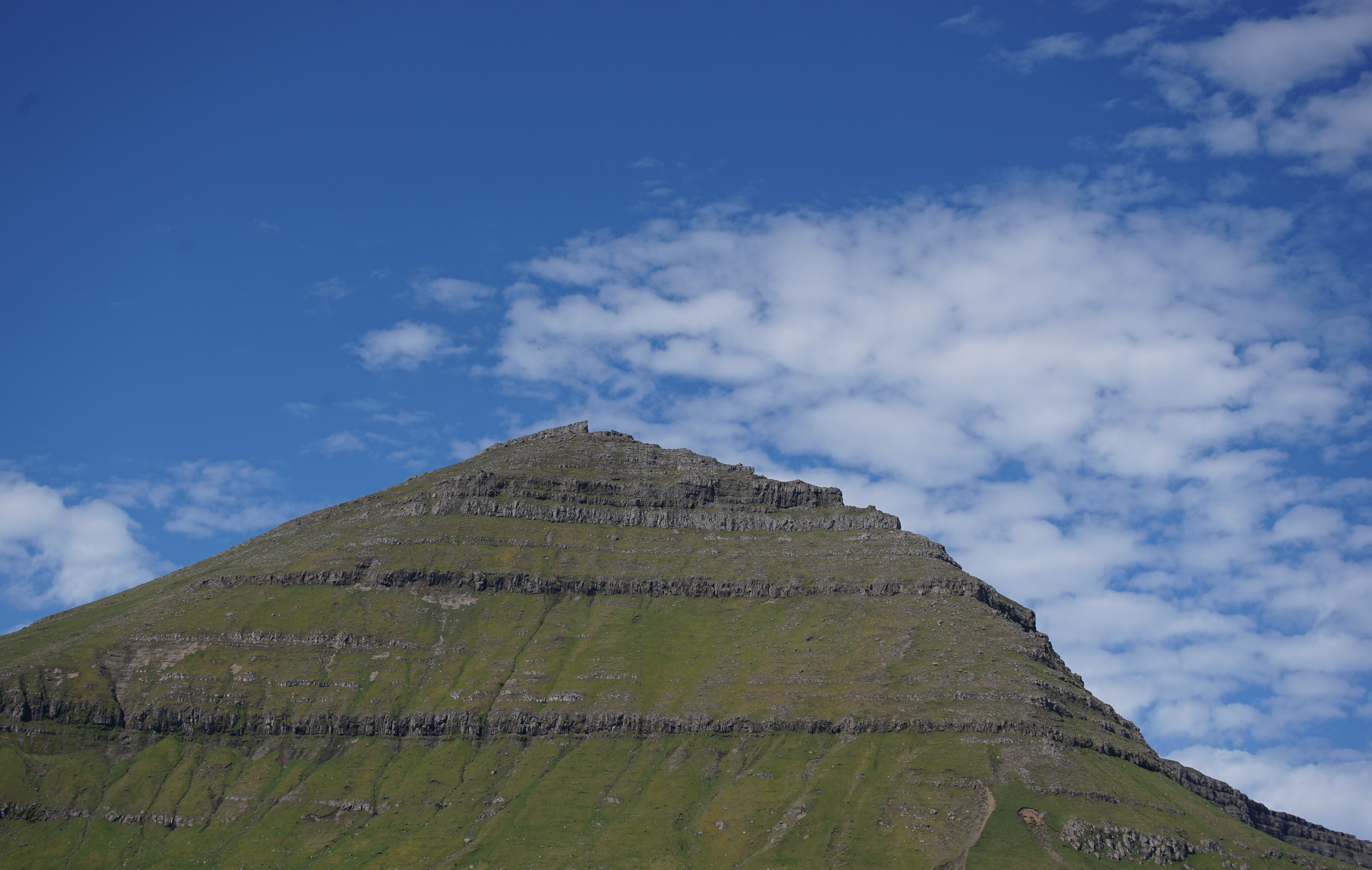 Slættaratindur, 2018.